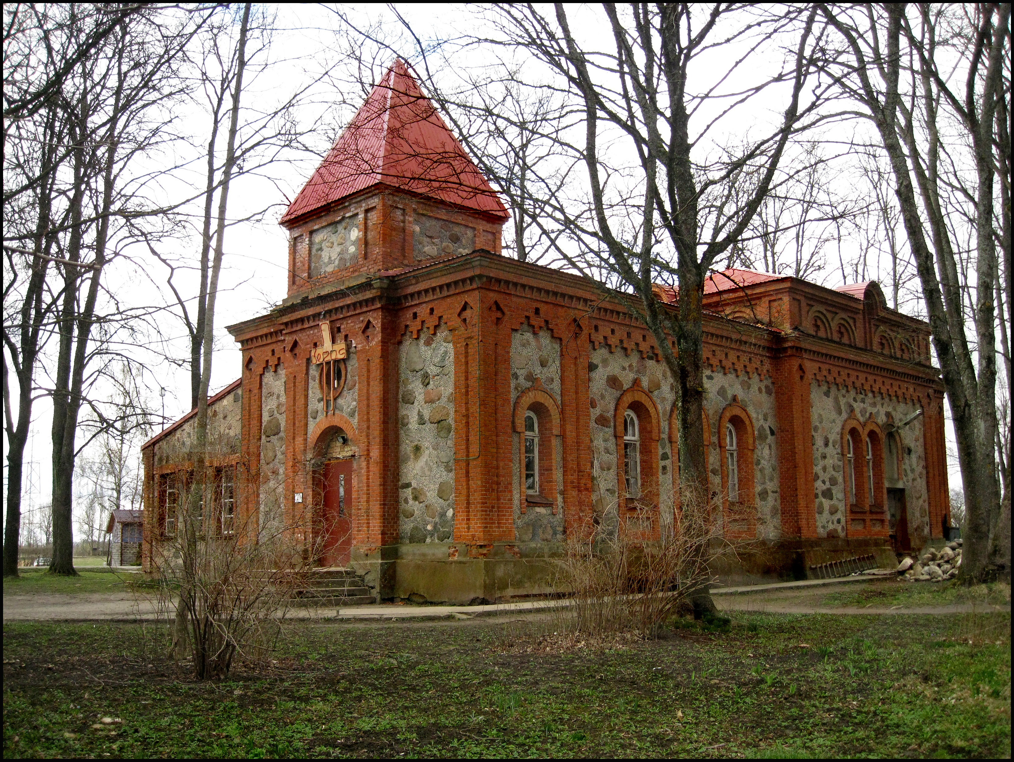 Valdemārpils Pentecostal ChurchLatviešu: Valdemārpils Vasarsvētku draudzes dievnams